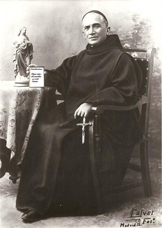 Saint Benedict Menni's portrait, ca. 1905